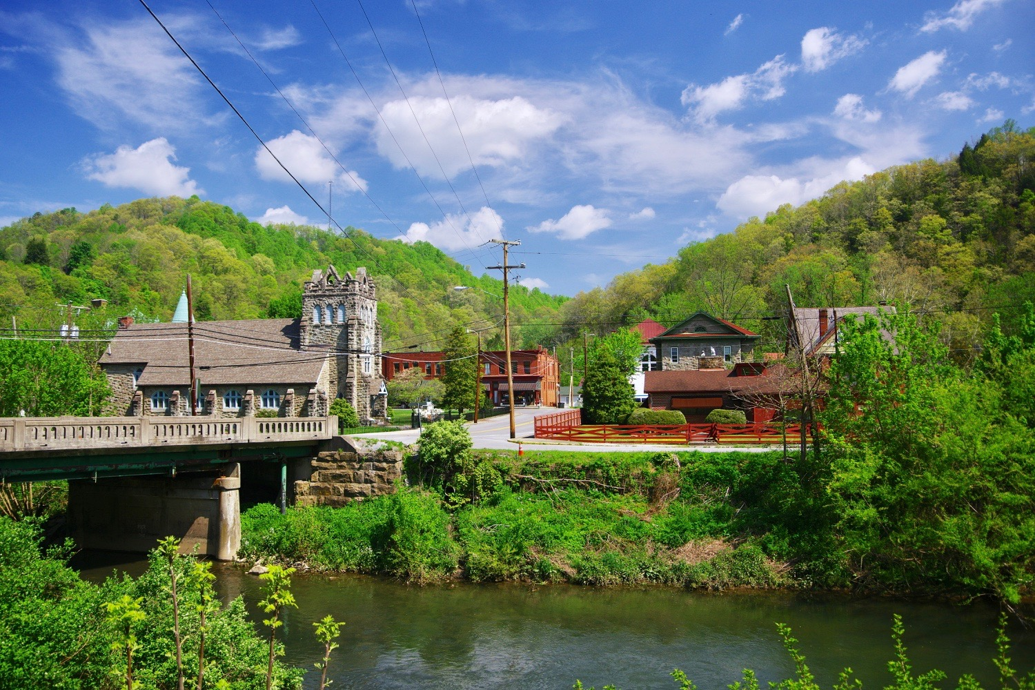 Bramwell, West Virginia, United States, viewed from Duhring Avenue. The Bluestone River is in the foreground.